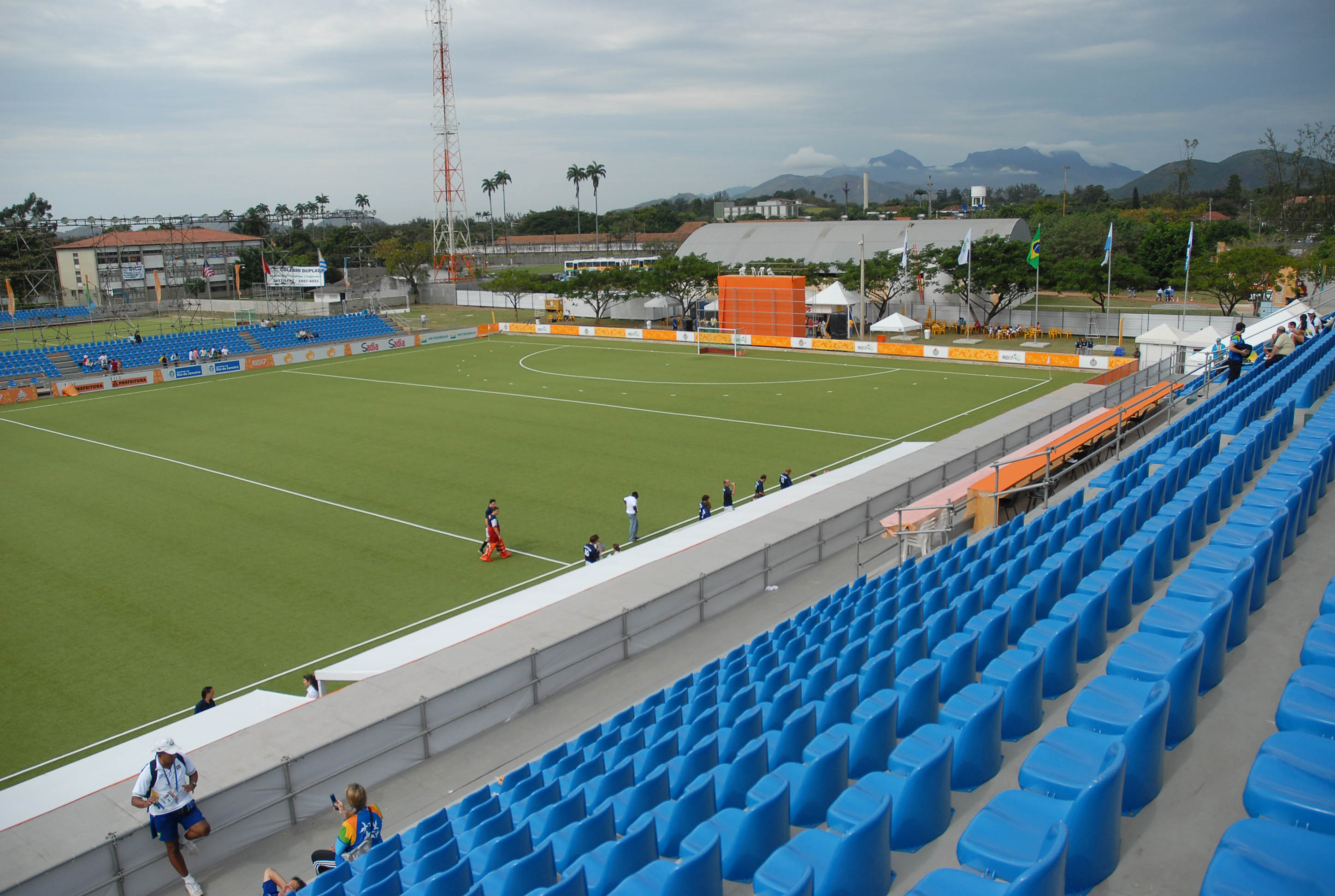 Field Hockey court at the Deodoro Complex in Rio de Janeiro: competition venue for the 2007 Pan American Games.